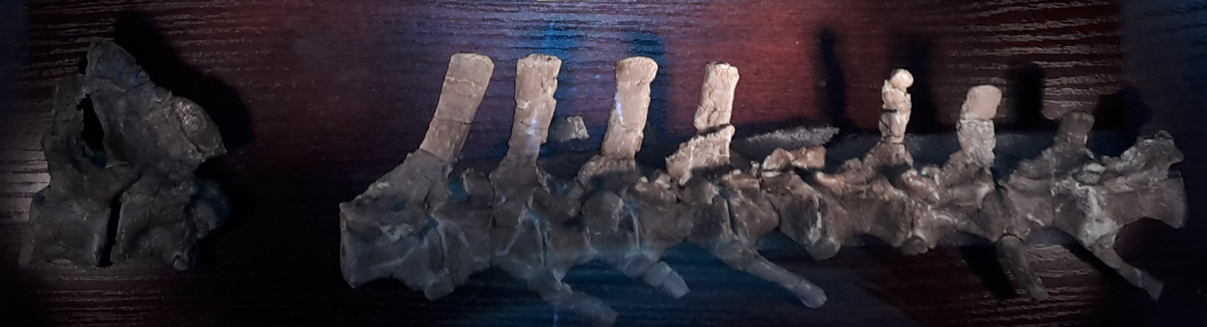 Polonosuchus vertebrae, Museum of Evolution of Polish Academy of Sciences, Warsaw.